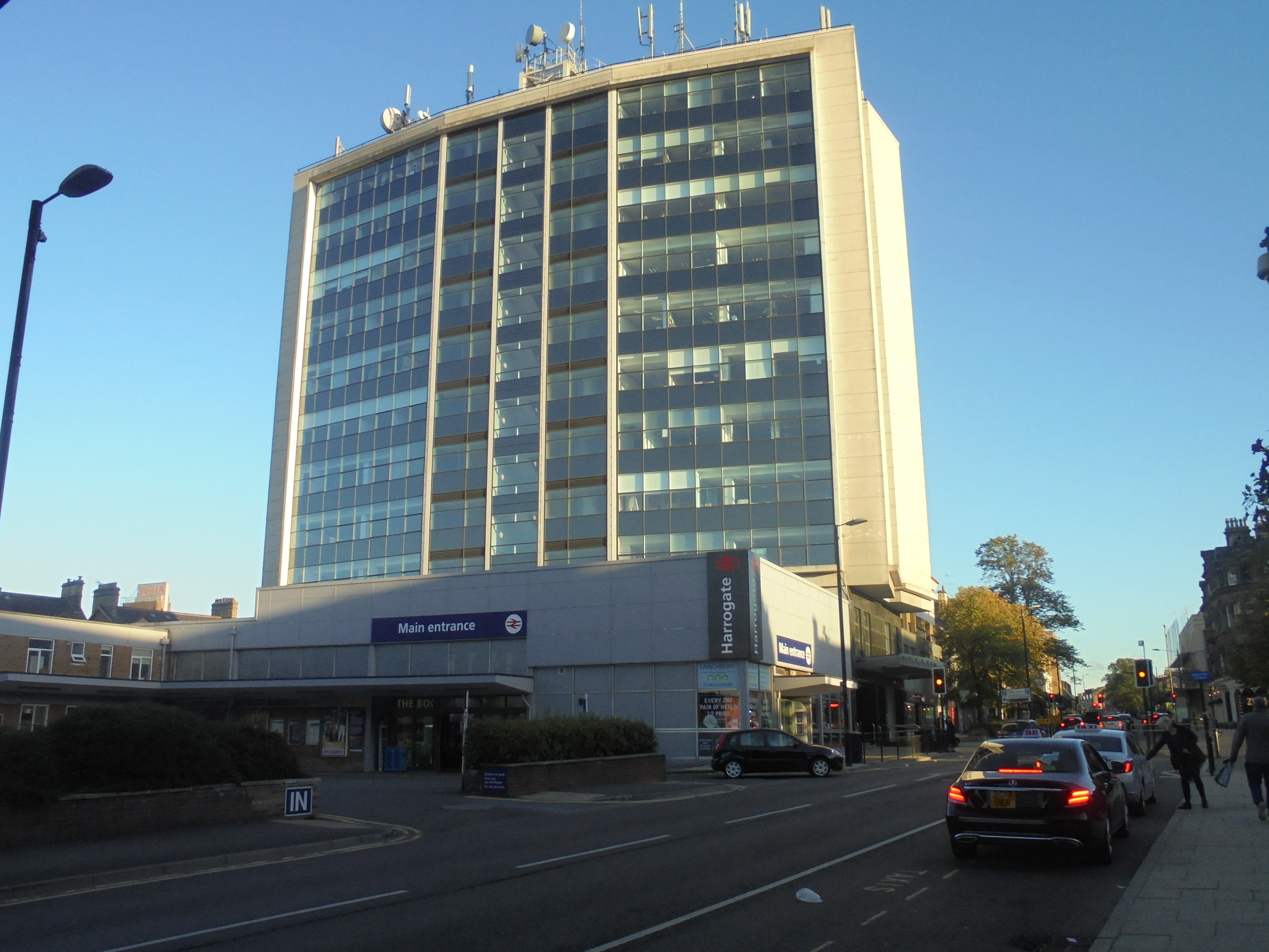 The Exchange above Harrogate railway station, North Yorkshire. Taken on the evening of Wednesday the 12th of September 2018.